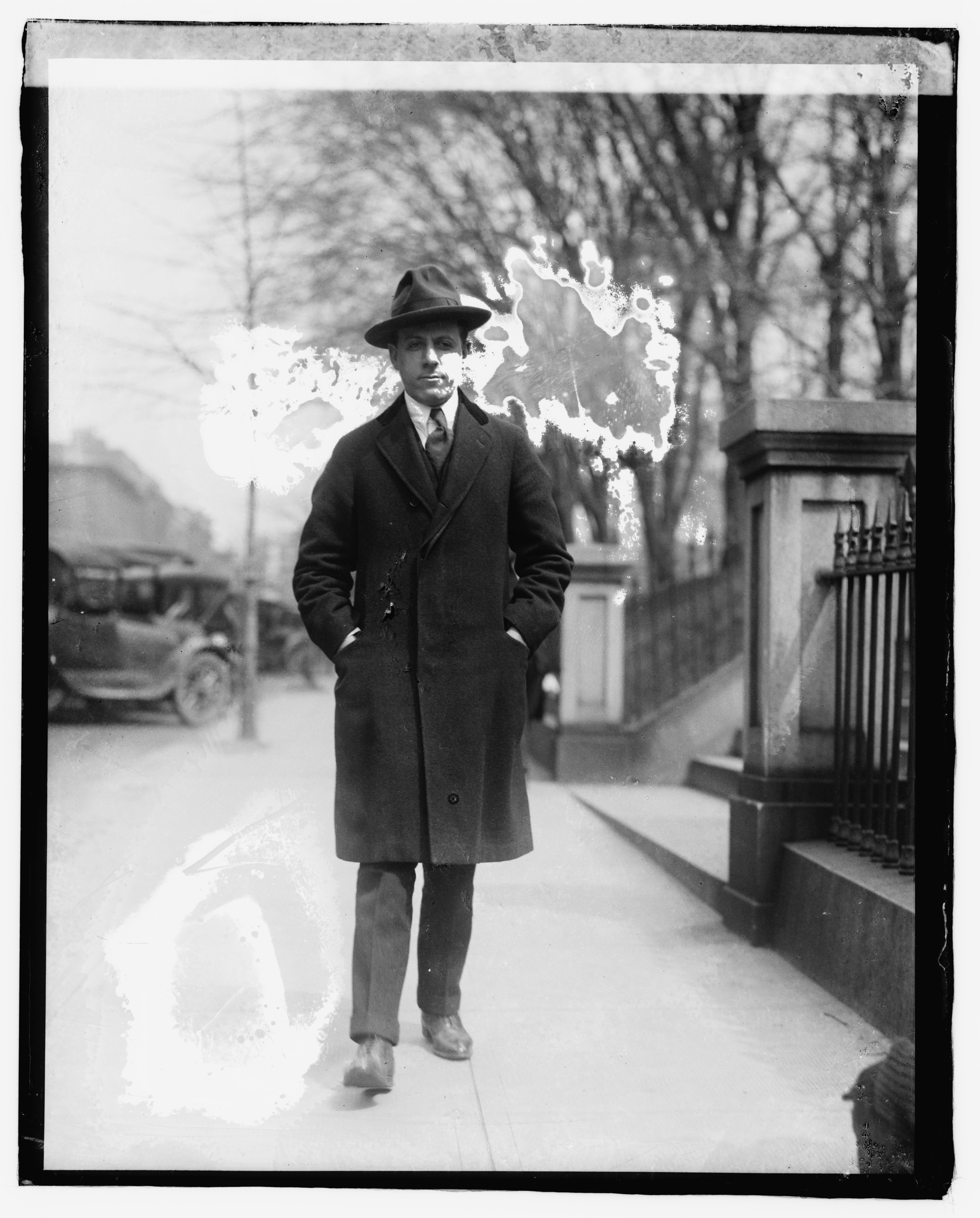 Title: David Lawrence Abstract/medium: 1 negative : glass ; 4 x 5 in. or smaller